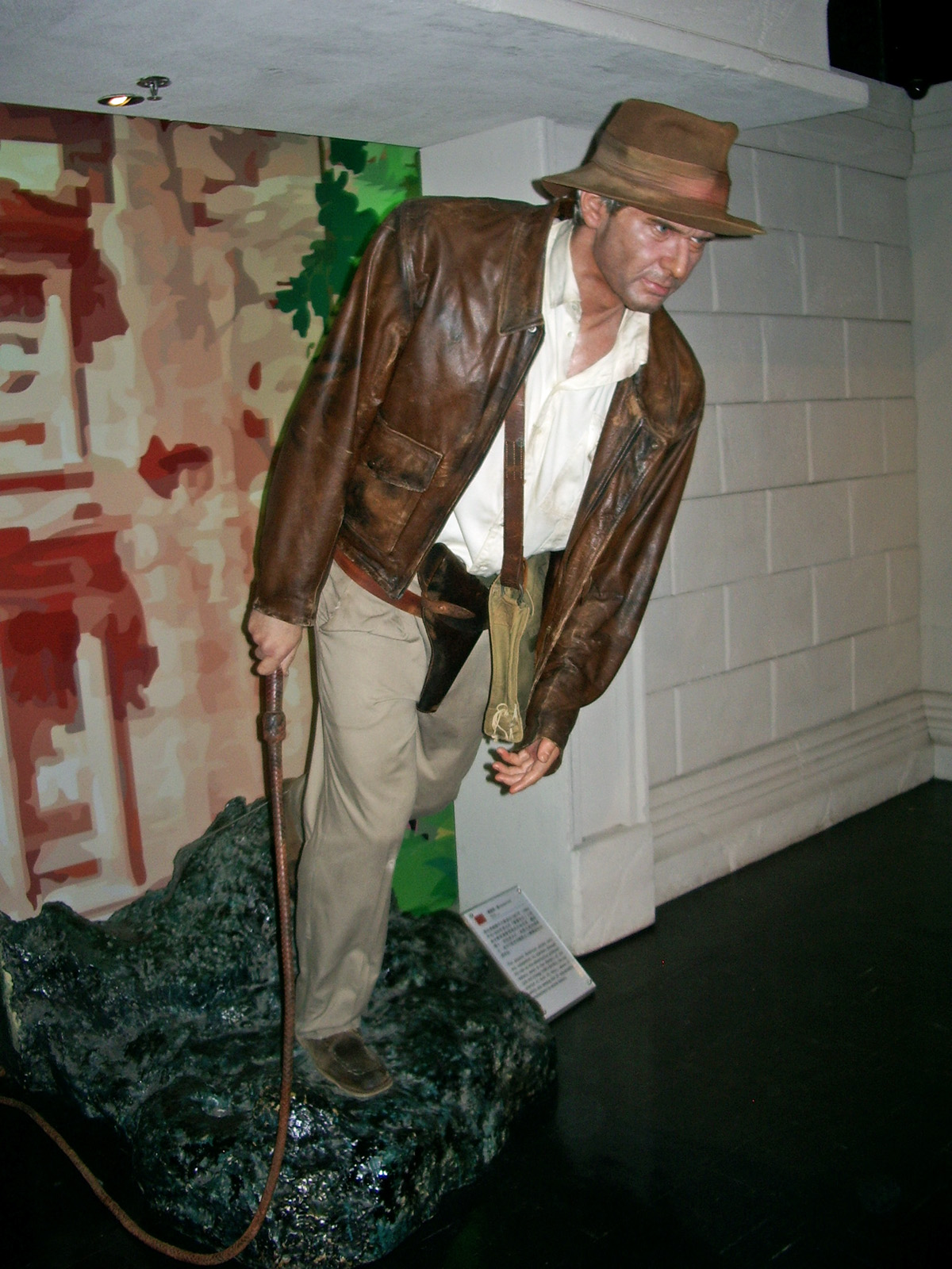 A likeness of Harrison Ford reprising his role as Indiana Jones. Of course, one part of me is asking - where is Calista Flockhart?